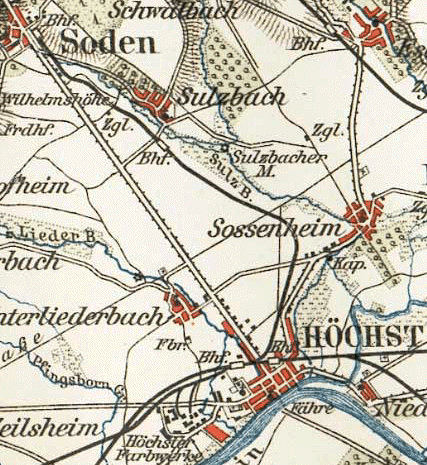 Frankfurt region, 1893: Soden railway. The short connection between Höchst, an old town with growing industry, and Soden, a spa quite fashionable among Europe's 19th-century upper class, was one of Germany's first minor rail lines.